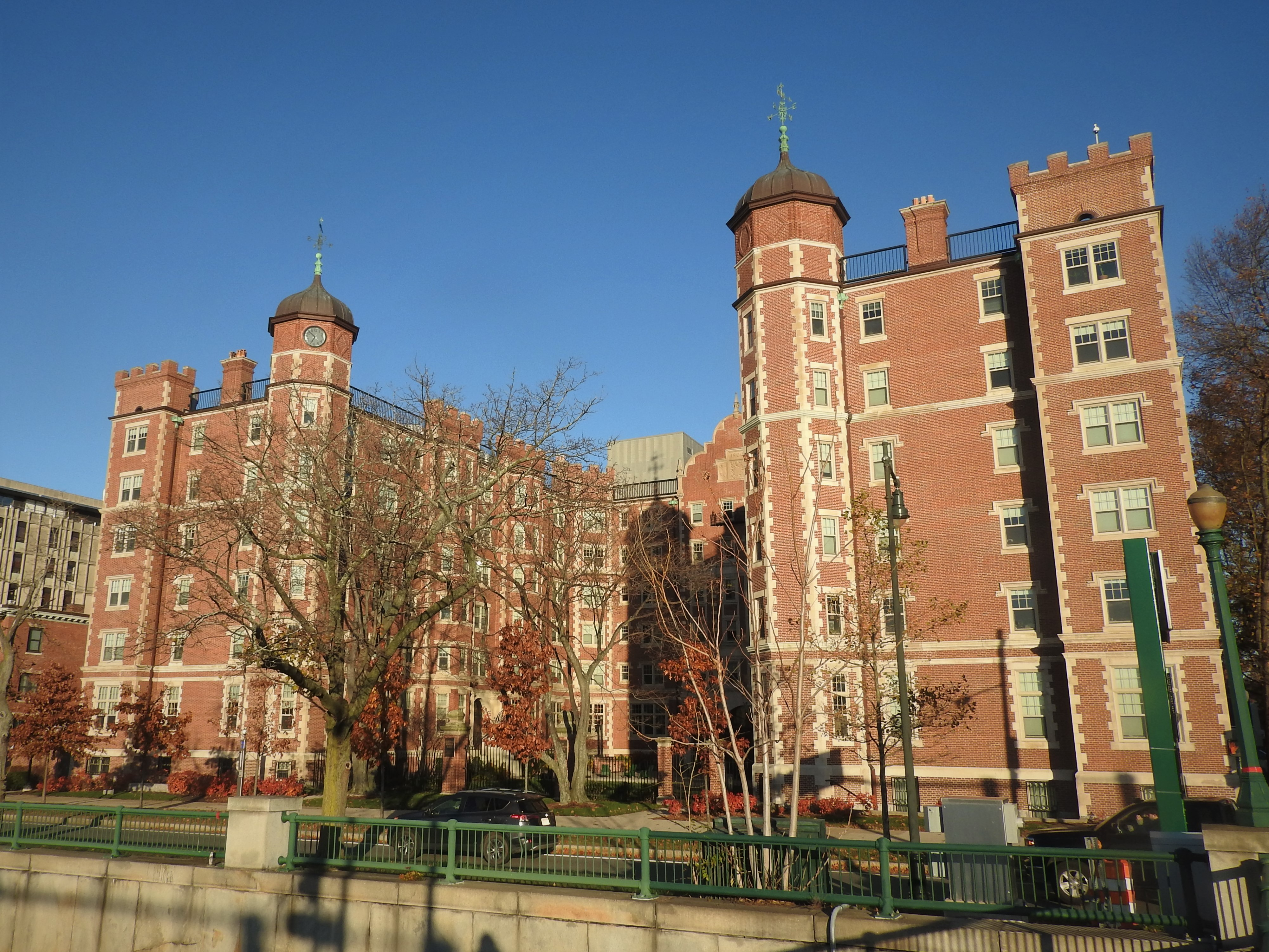 Looking northwest from Massachusetts Avenue bridge approach on a sunny morning